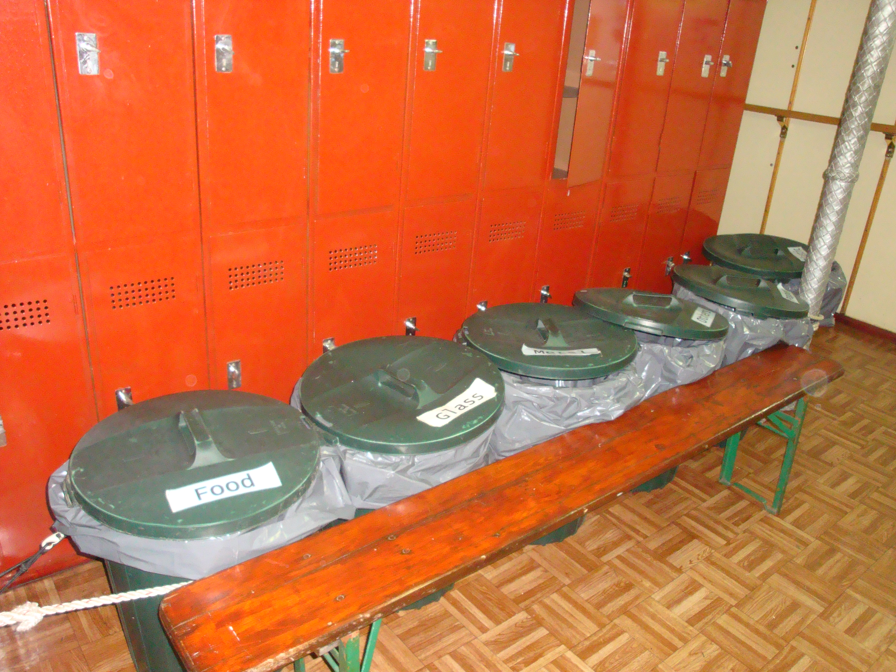 Bins for segregated garbage as per requirements of MARPOL Convention on Polish tall ship Dar Młodzieży